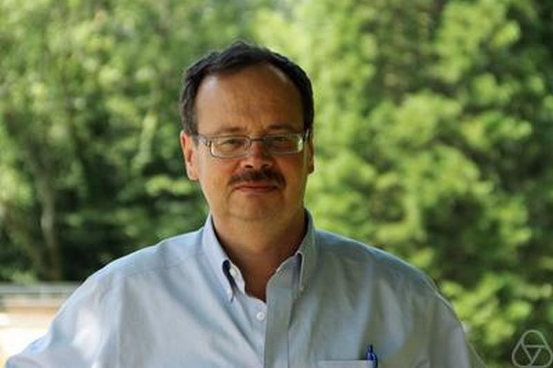 Misha (Michael) Kapovich, Oberwolfach 2015